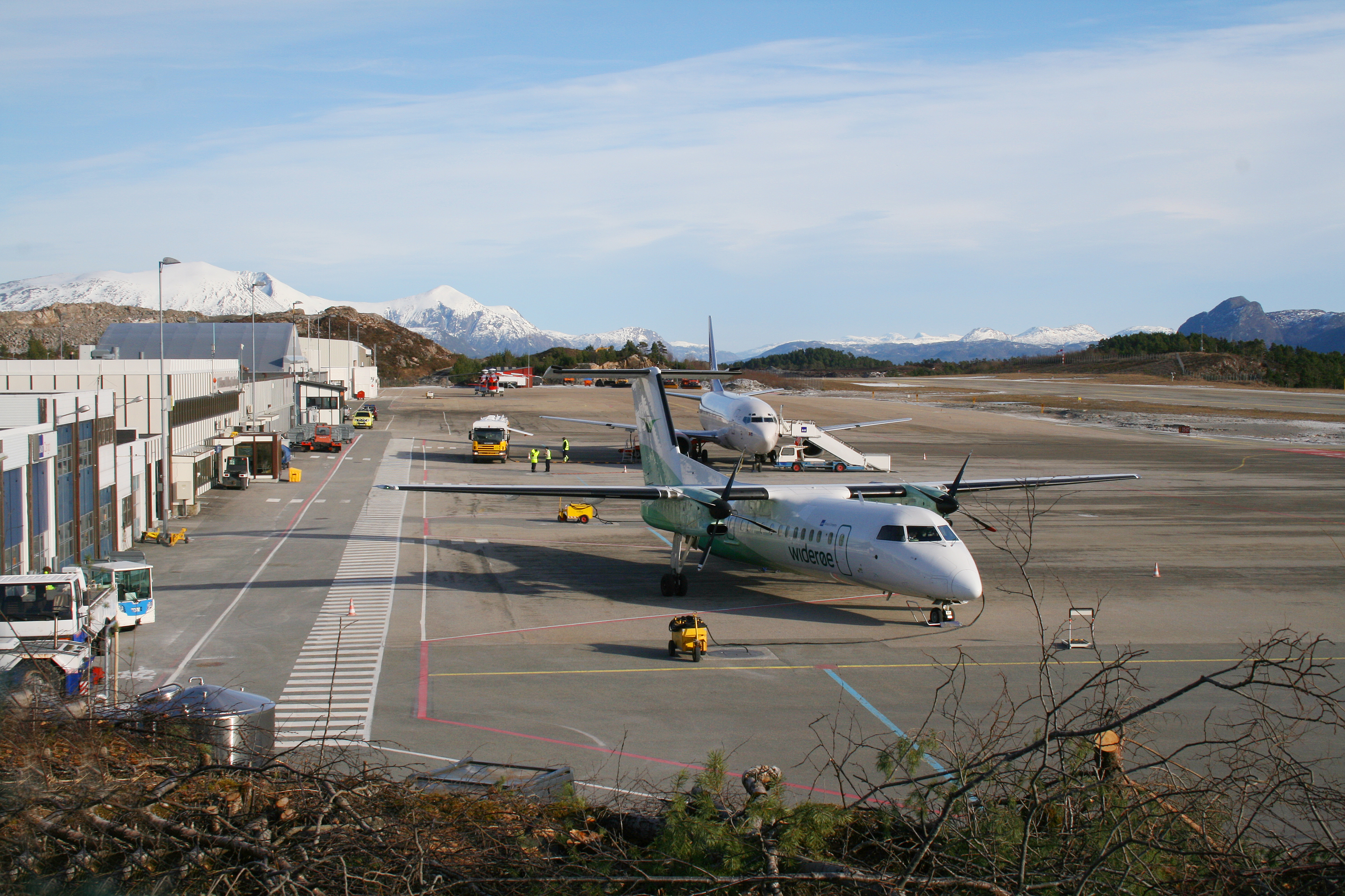 Overview, Kristiansund Airport